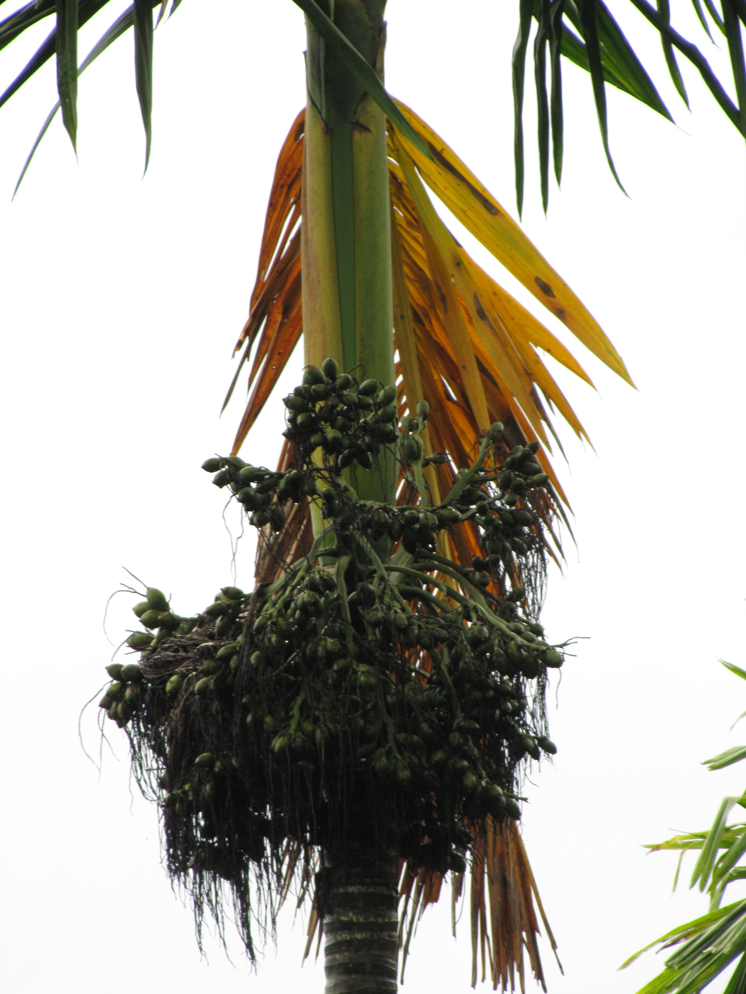 Areca nut tree top view